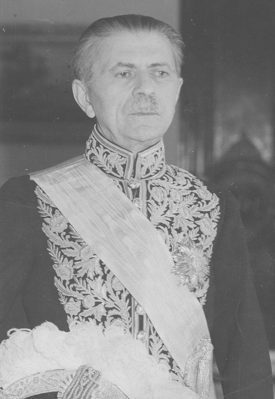 Iranian Prime Minister, Hossein Ala'